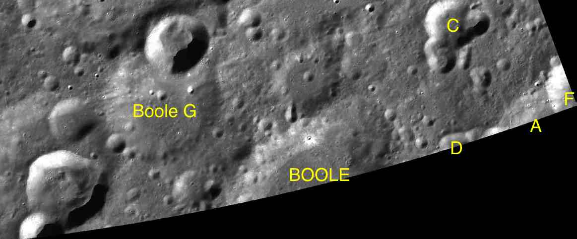 Part of the chart LAC-9 used for the presentation